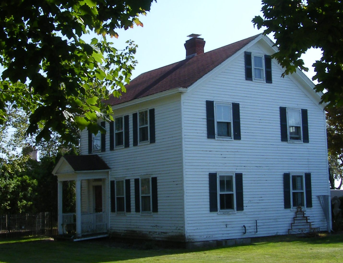 Wickapoque Historic District